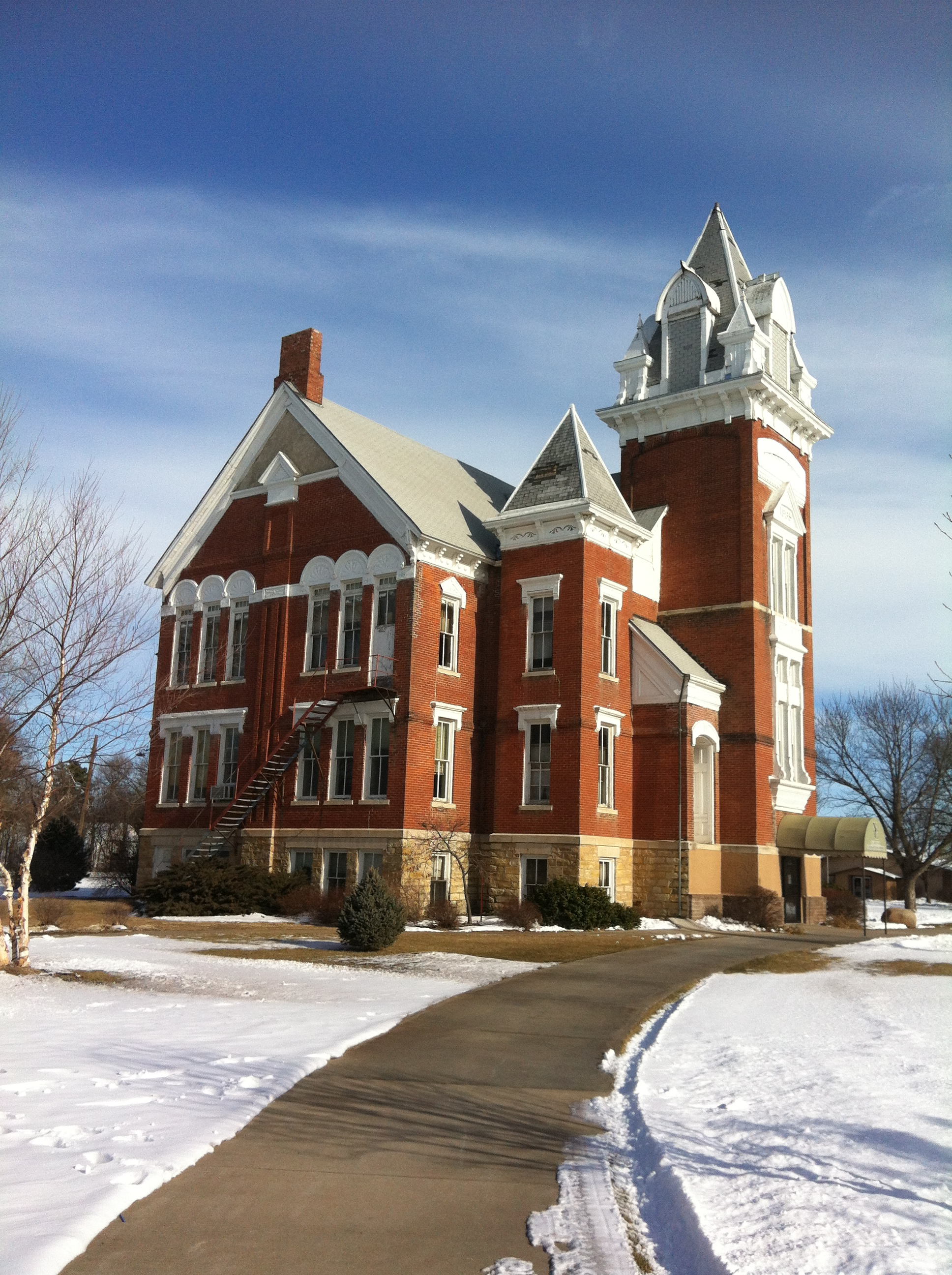 A photo of Nebraska Christian High school near Central City Nebraska on 12-26-2012. This used to be the main building for Nebraska Central College, which opened in 1885.